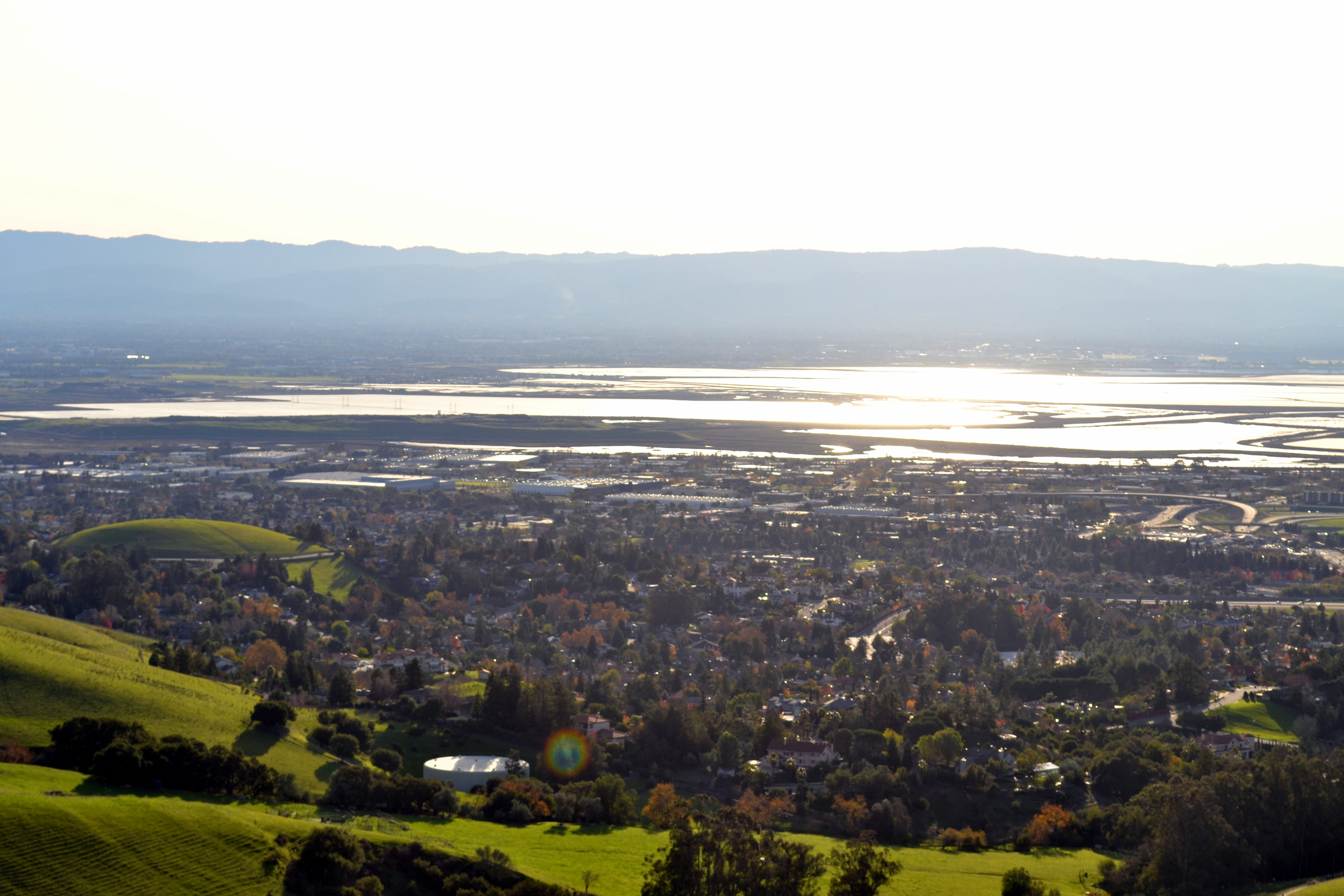 South San Francisco Bay viewed from Mission Peak in Fremont, California